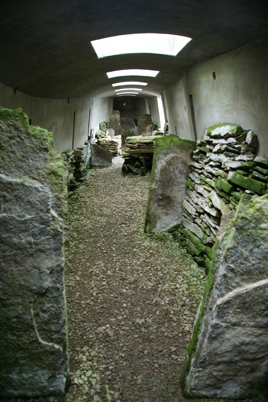 Blackhammer Chambered Cairn, Rousay, Orkney, Scotland. Interior.